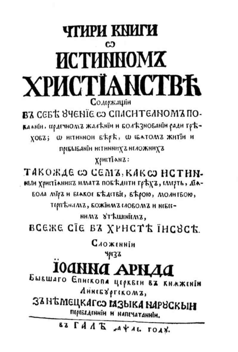 Translation of the Iogann Arndt's book made by Simon Todorsky. Printed in Halle, 1735.